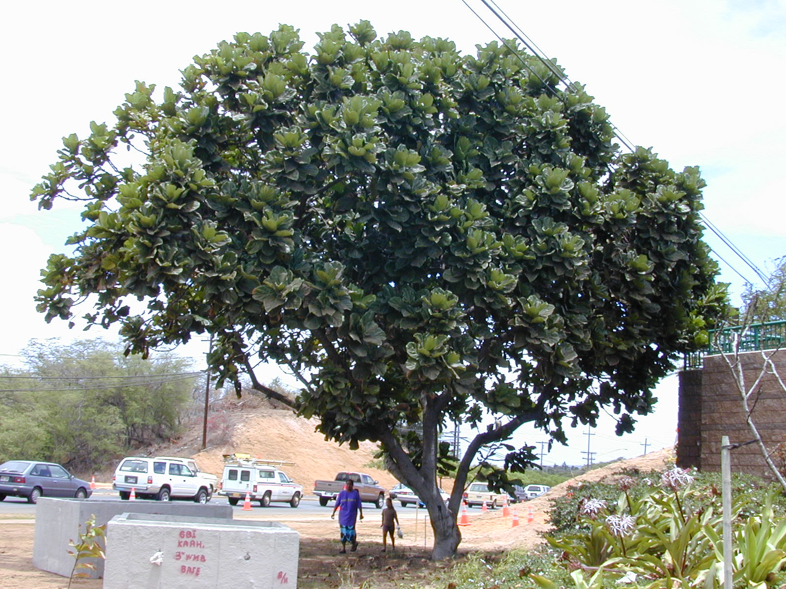 Ficus lyrata (habit). Location: Maui, Kahului